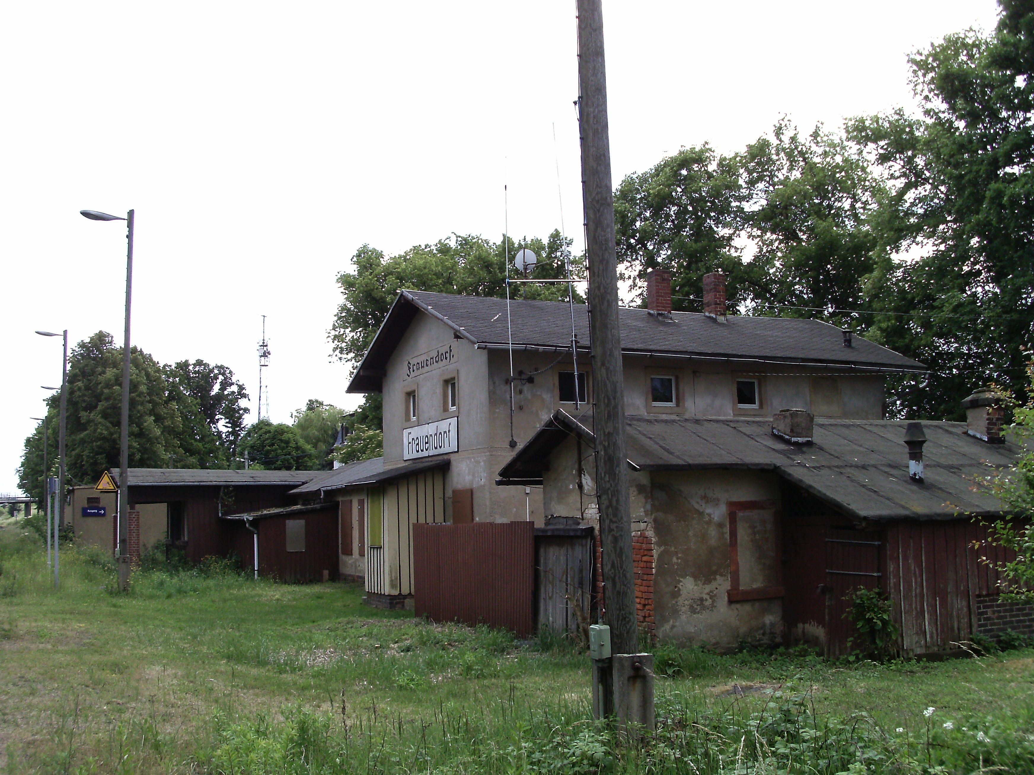 Former Frauendorf station at the Neukieritzsch-Chemnitz railway line (Frohburg, Leipzig district, Saxony)